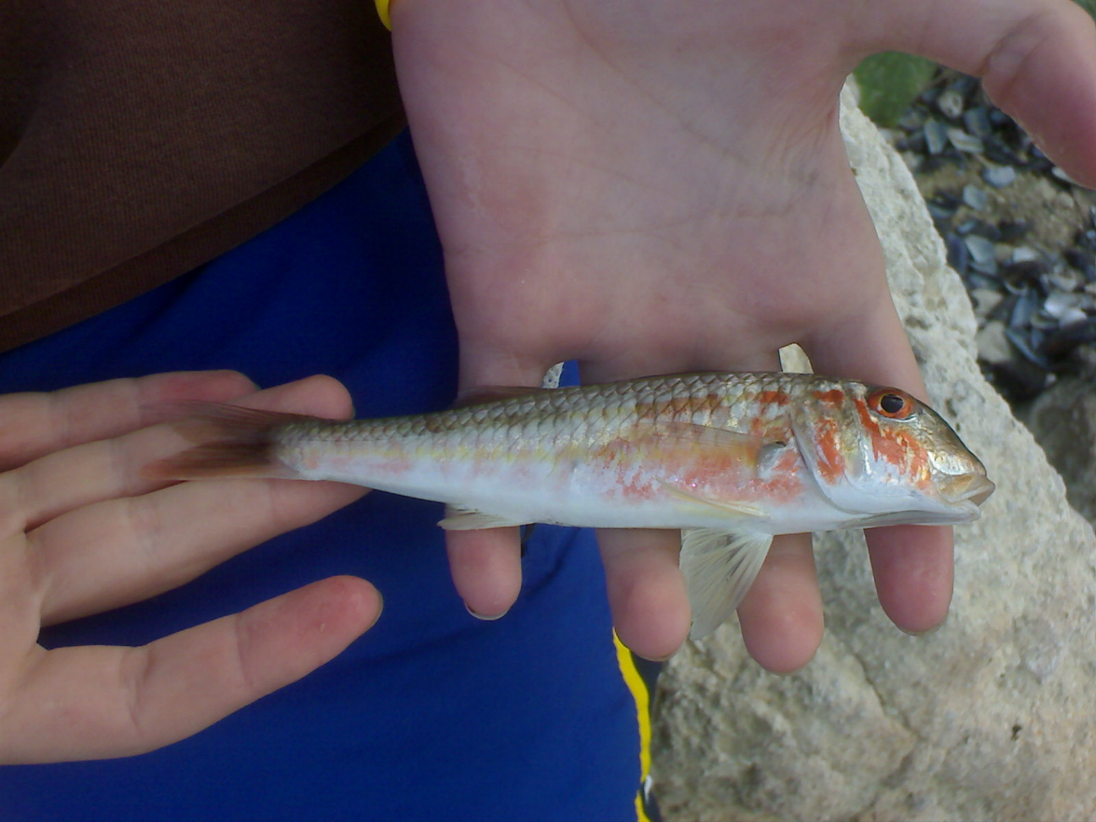 mullus barbatus ponticus